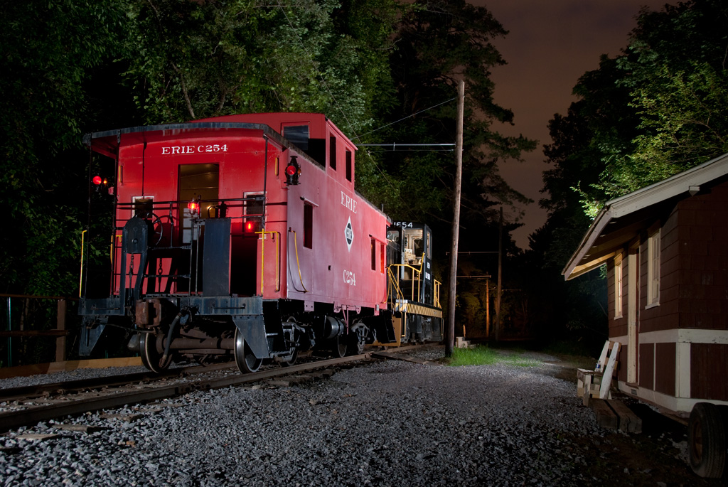 Erie Caboose C254 along with 1654 posed for a night photo next to the Rochester waiting room.